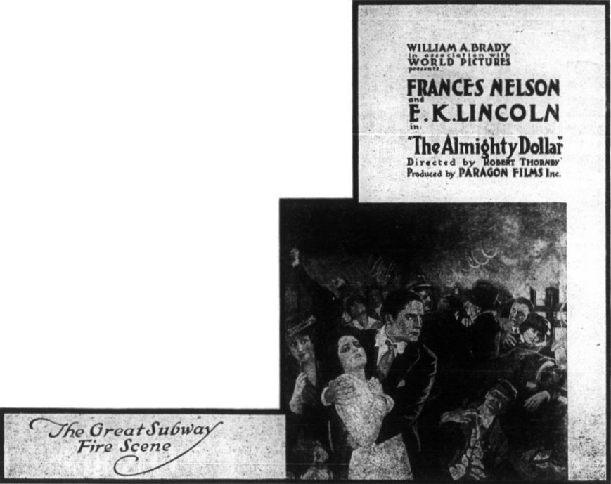 Advertisement for the American drama film The Almighty Dollar (1916) with Frances Nelson (1892 – 1975) and E.K. Lincoln, on page 24 of the September 1, 1916 Variety.